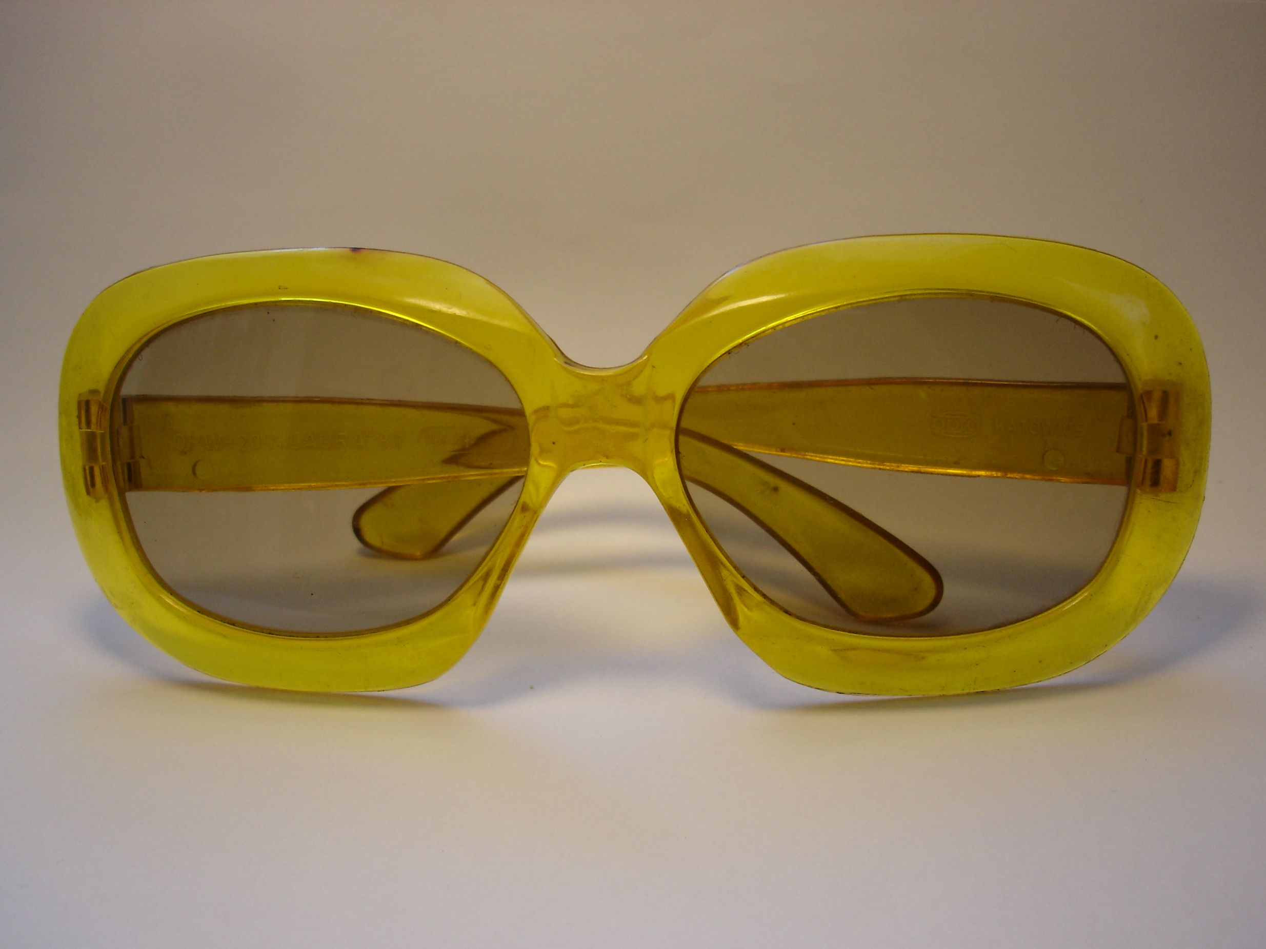 Sunglasses OPW-200 Laura 80 from Silesian Mechanics-Optics Industry Plant OPTA in Katowice, Poland. Ca. 1970-1980?.